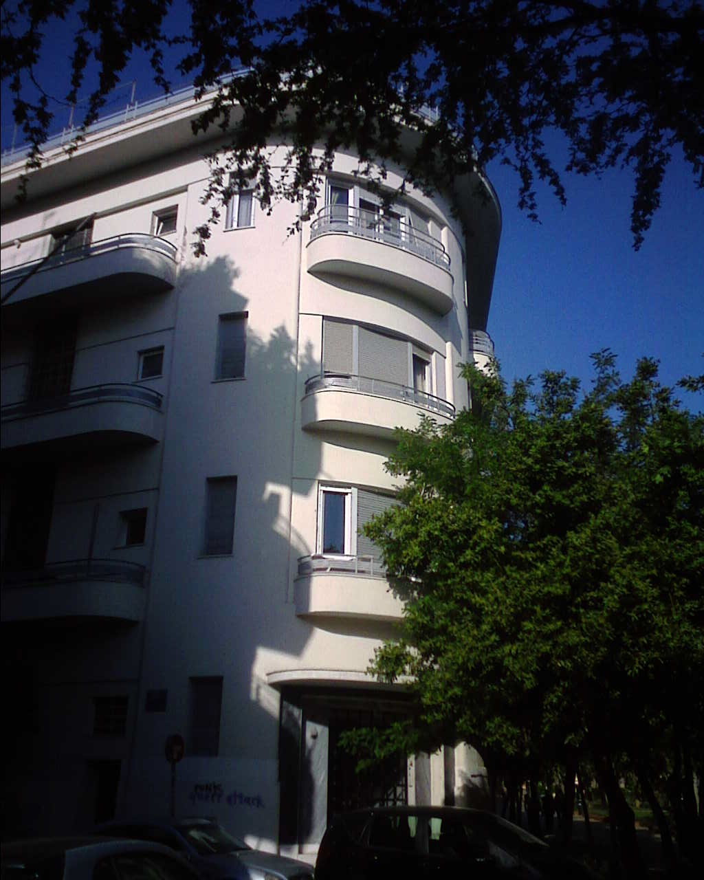 Edificio modernistico nel quartiere di Kipseli, Atene